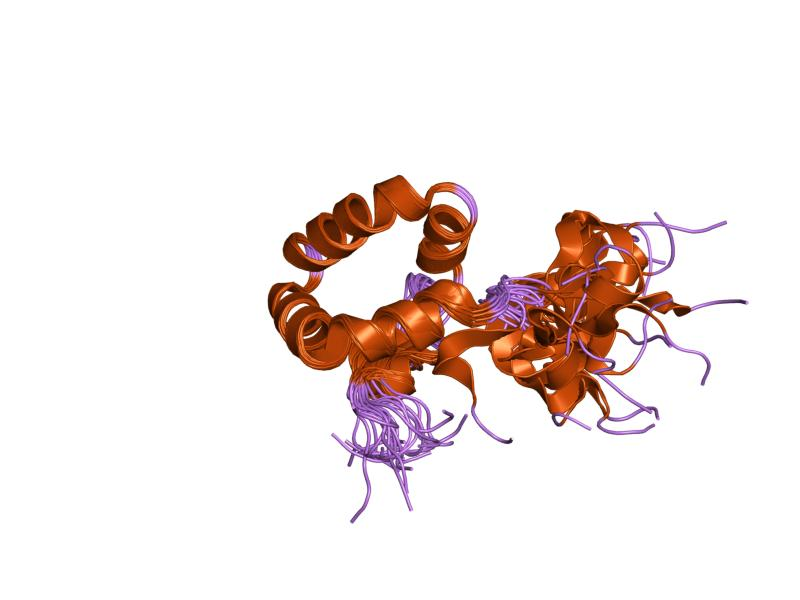 Cartoon representation of the molecular structure of protein registered with 1pve code.